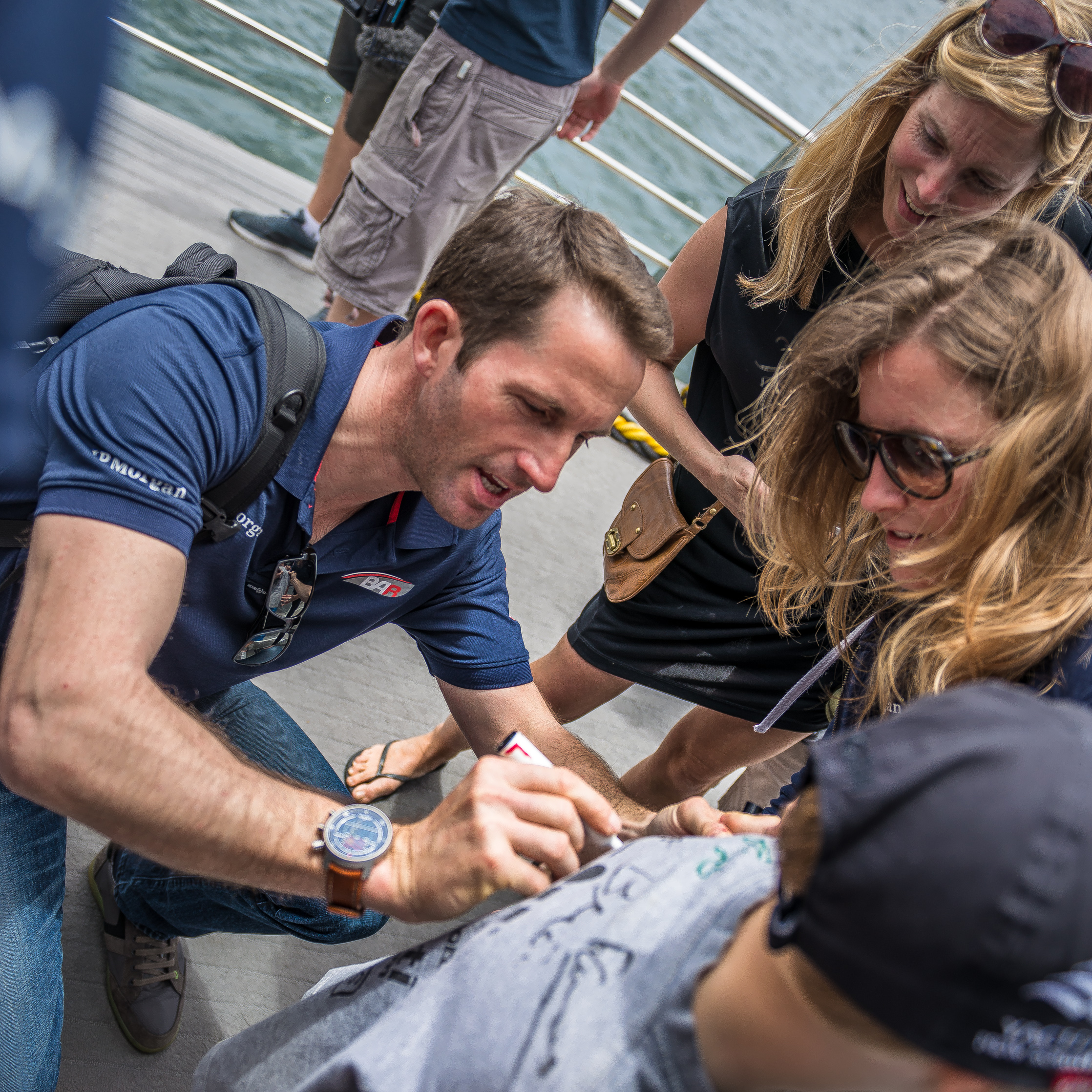 Sir Charles Benedict Ainslie with fans in 2014